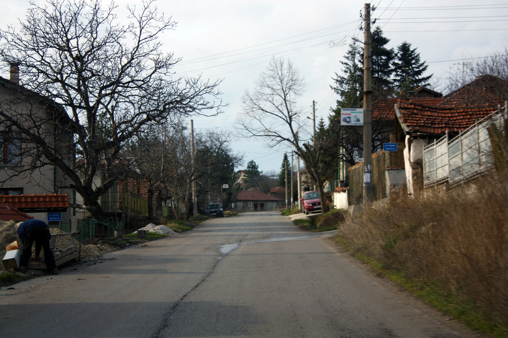 Sportist Street, Pozharevo, Sofia District